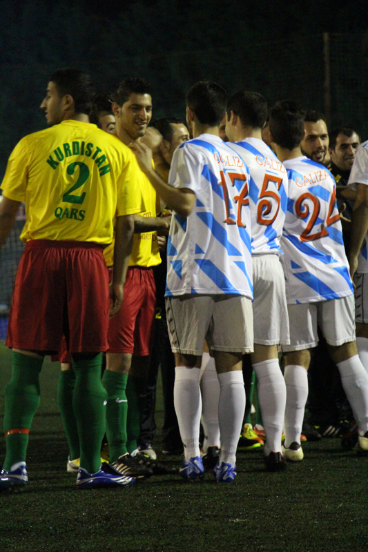 Galiza - Curdistán